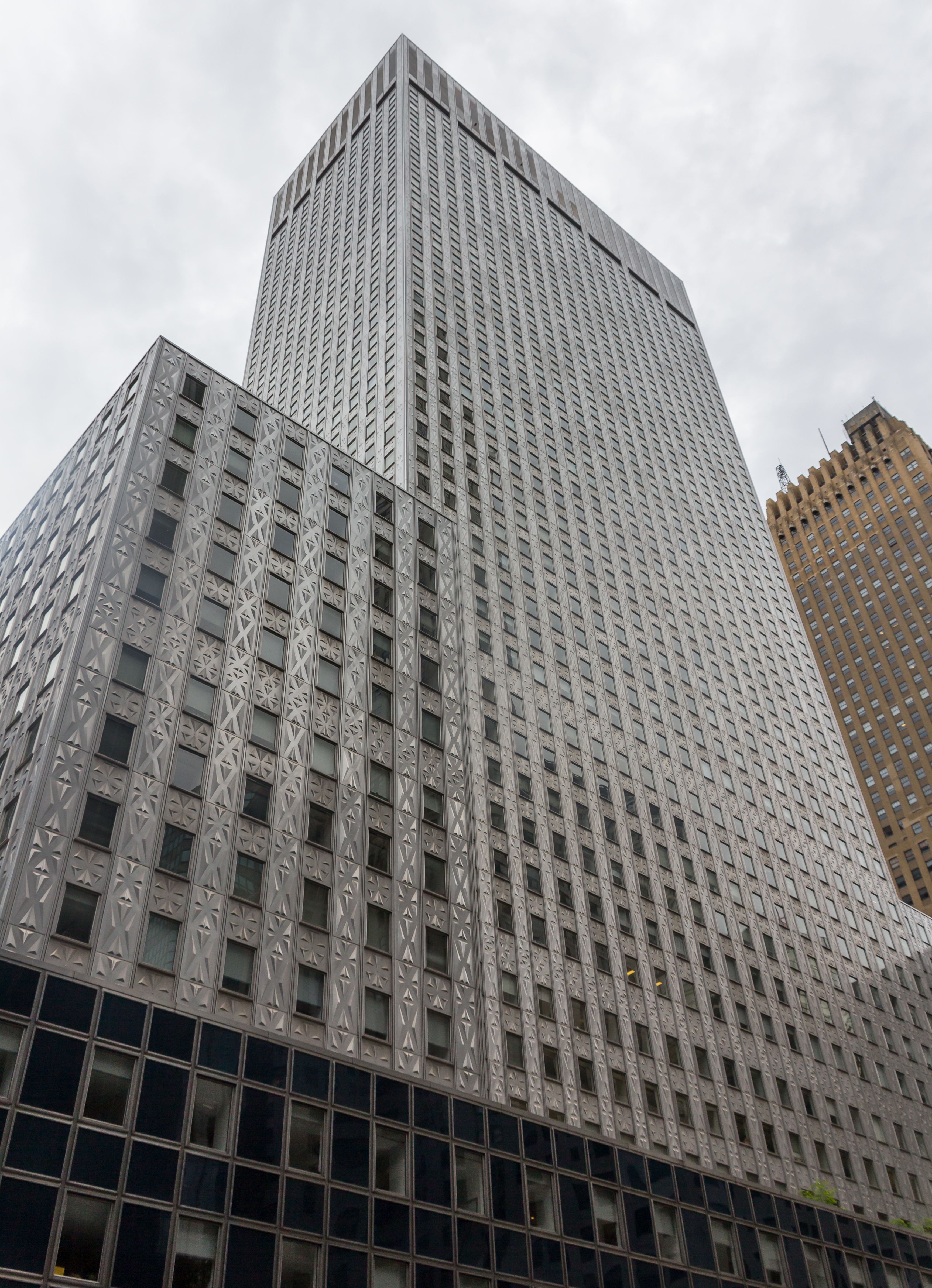 Manhatten, New York City E 42 St